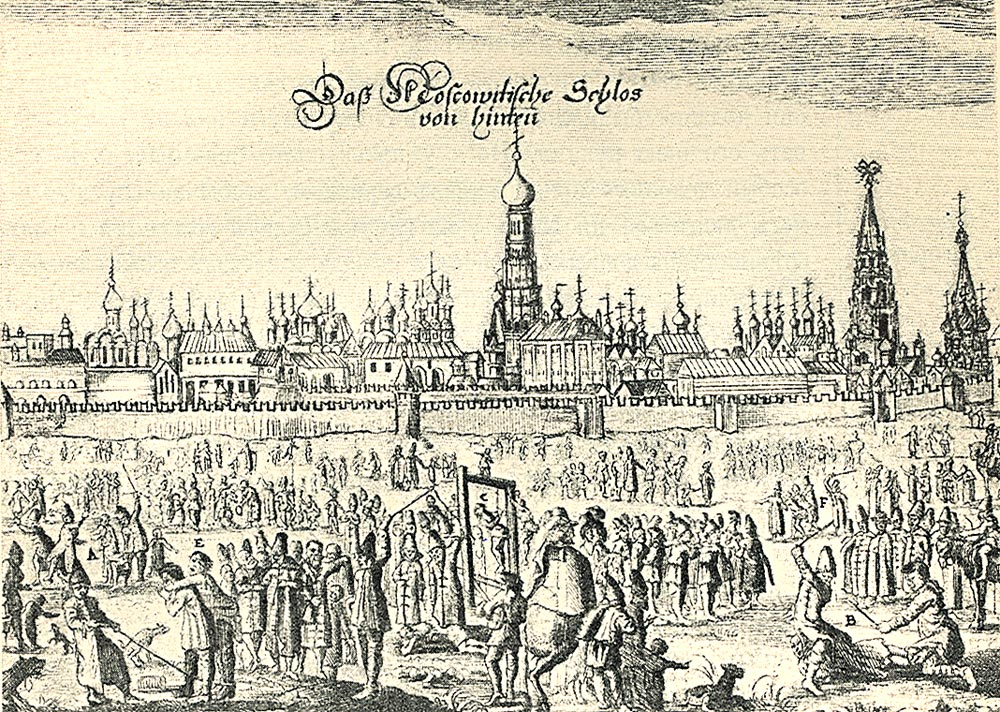 Moscow Kremlin and punishment